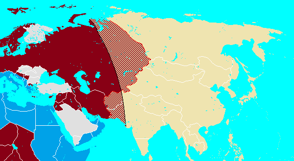 Map showing the possible borders of a partitioned USSR (which includes planned annexations of other areas) Nazi Germany Area of Nazi Germany claimed for the end of the war Claimed border of Nazi Germany in the east Italian Empire Area of the Italian Empire claimed for the end of the war Japanese Empire Area of the Japanese Empire claimed for the end of the war Claimed border of Japan in the west